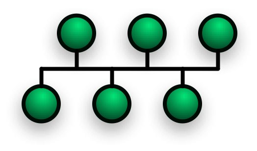 Created by me using OmniGraffle and released into the public domain. Original file available on request.